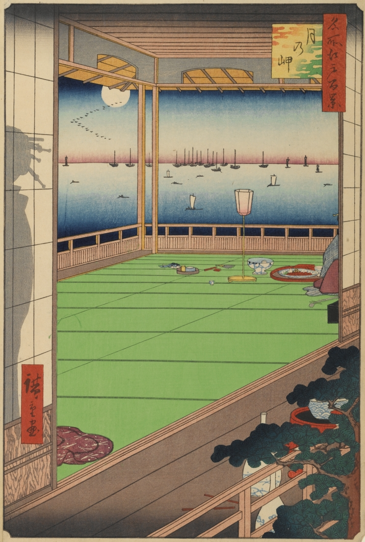 Part of the series One Hundred Famous Views of Edo, no. 082, part 3: Autumn.